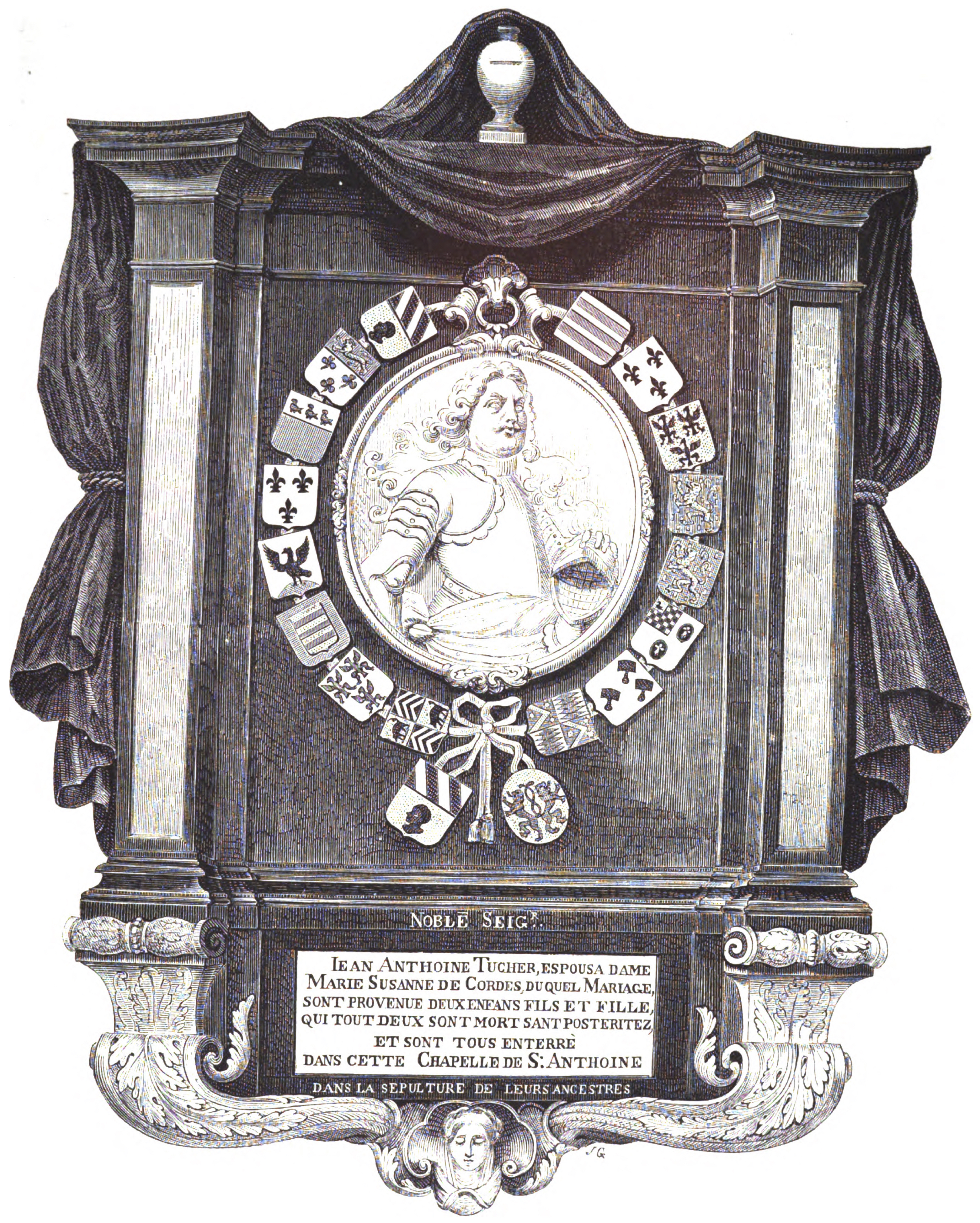 Monument Iean Anthoine Tucher